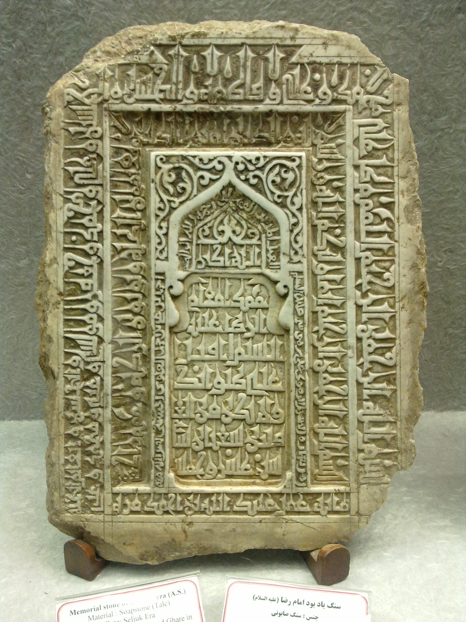 Memorial stone of Imam Reza . Museum of Imam Reza , Mashhad , Iran . Seljuk era .Made by Abdullah ibn Ahmad Ghare 1122 AD (516 Hejri).